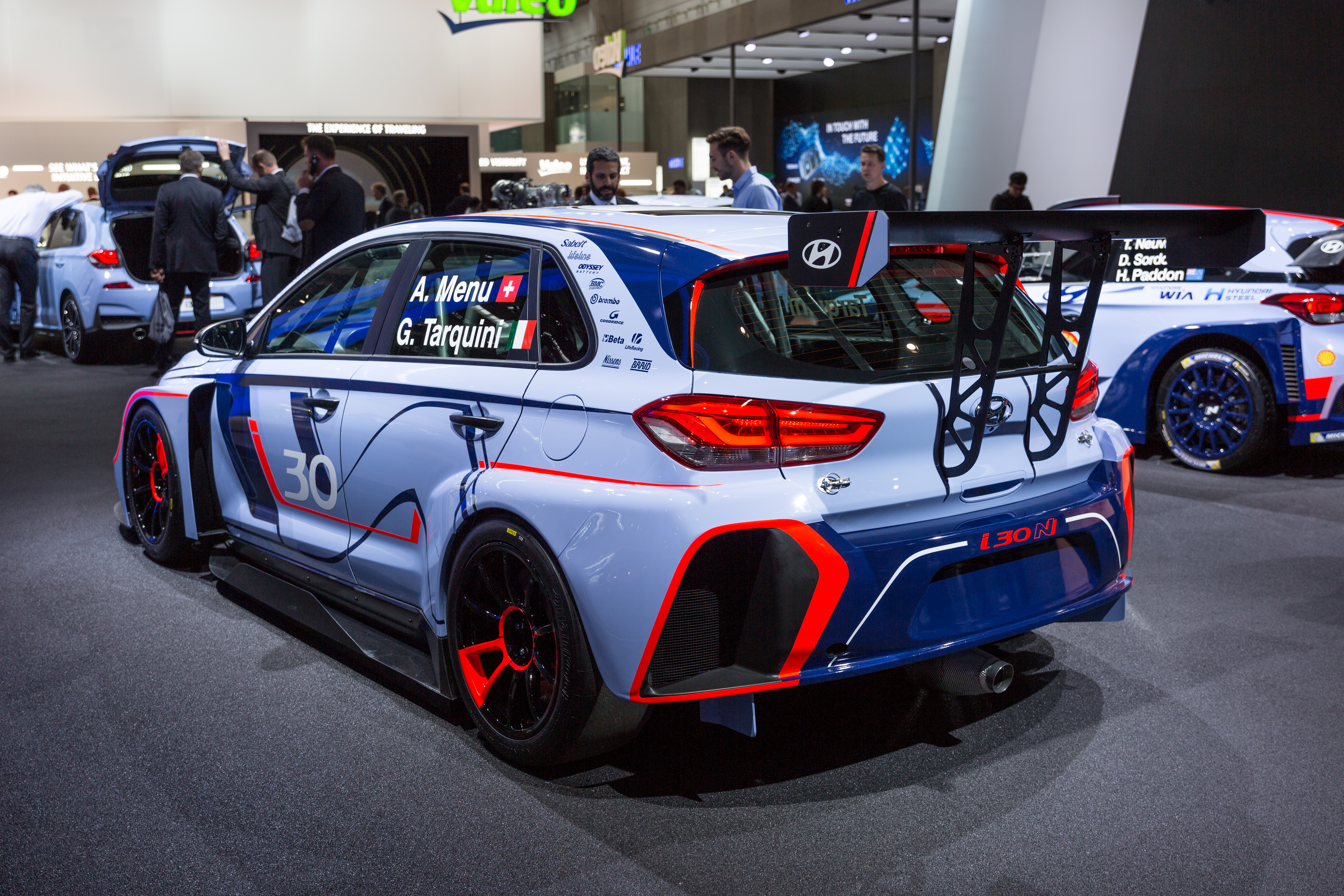 Hyundai i30 N TCR, IAA 2017